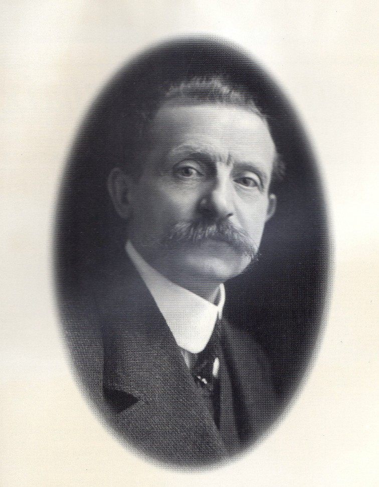 Image of Theo Vienne from circa 1896, Photographer unknown, Published in "A Century of Paris-Roubaix" by Pascal Sergent.